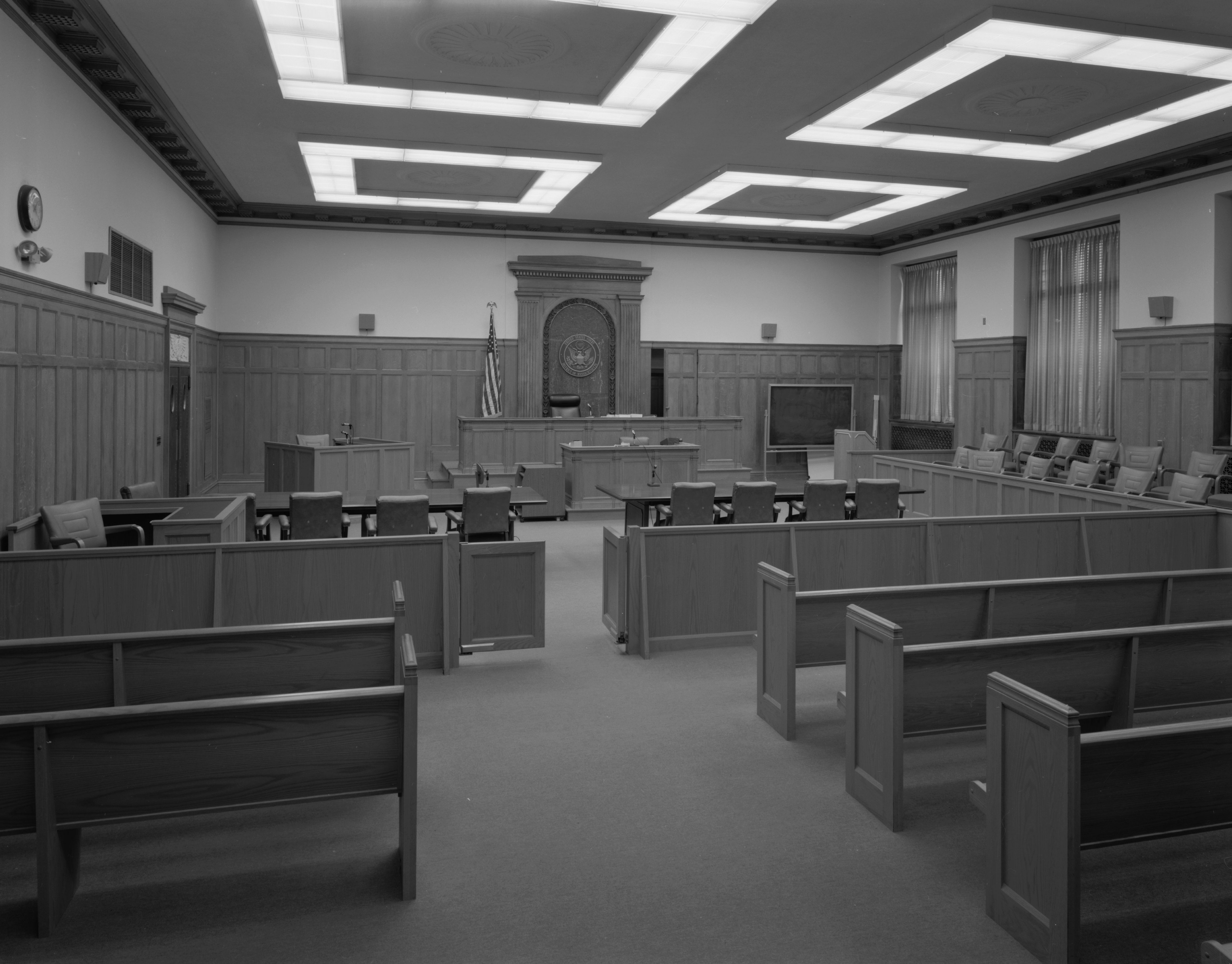 Courtroom at federal courthouse building in Worcester, Massachusetts.